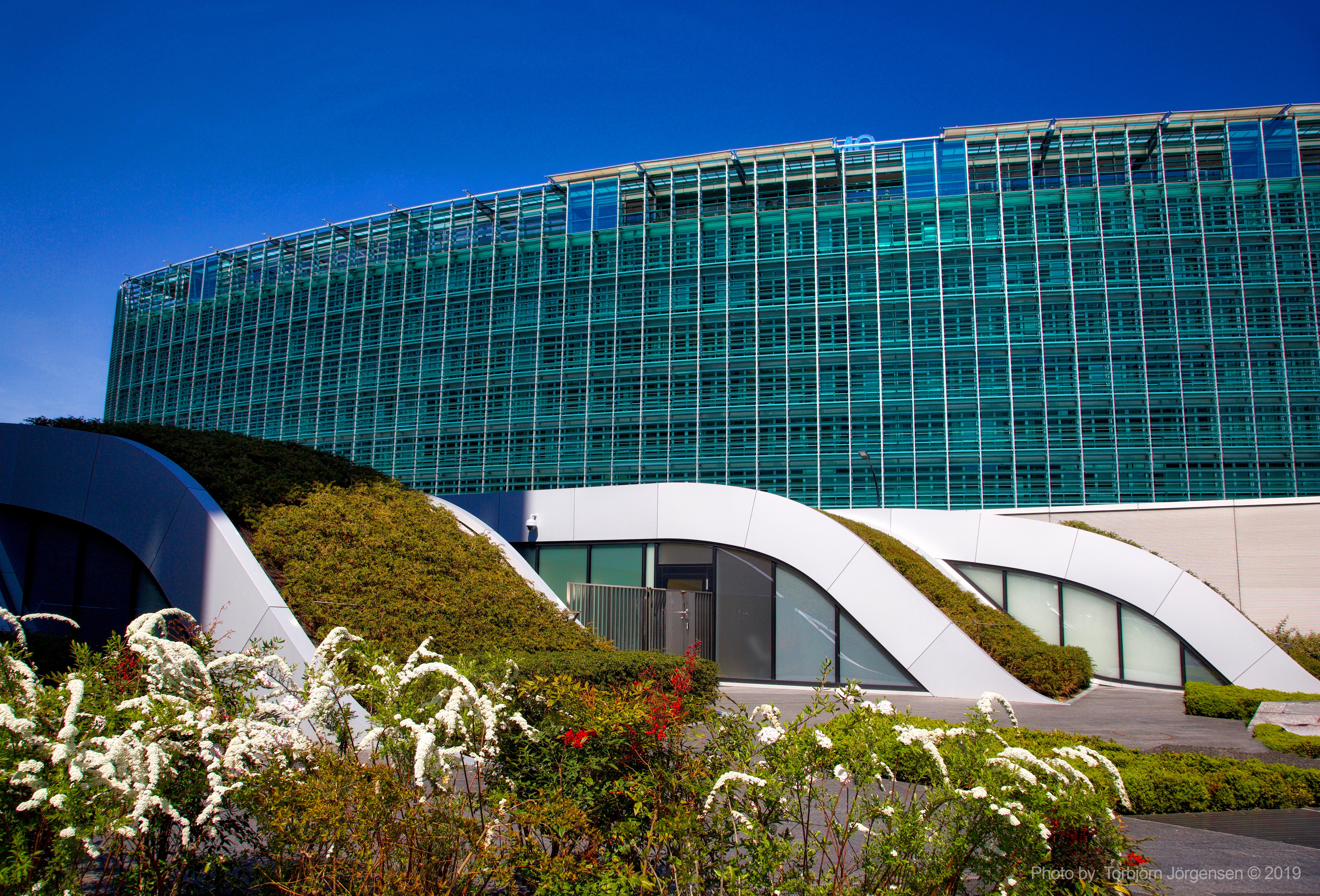 World Meteorological Organization, Geneva